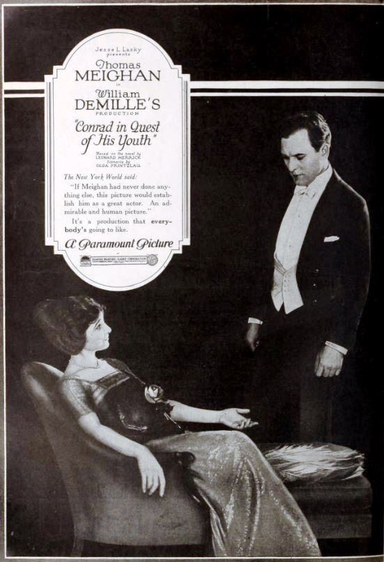 Advertisement for the American comedy drama film Conrad in Quest of His Youth (1920) with an unidentified actress and Thomas Meighan, on page 4 of the November 27, 1920 Exhibitors Herald.